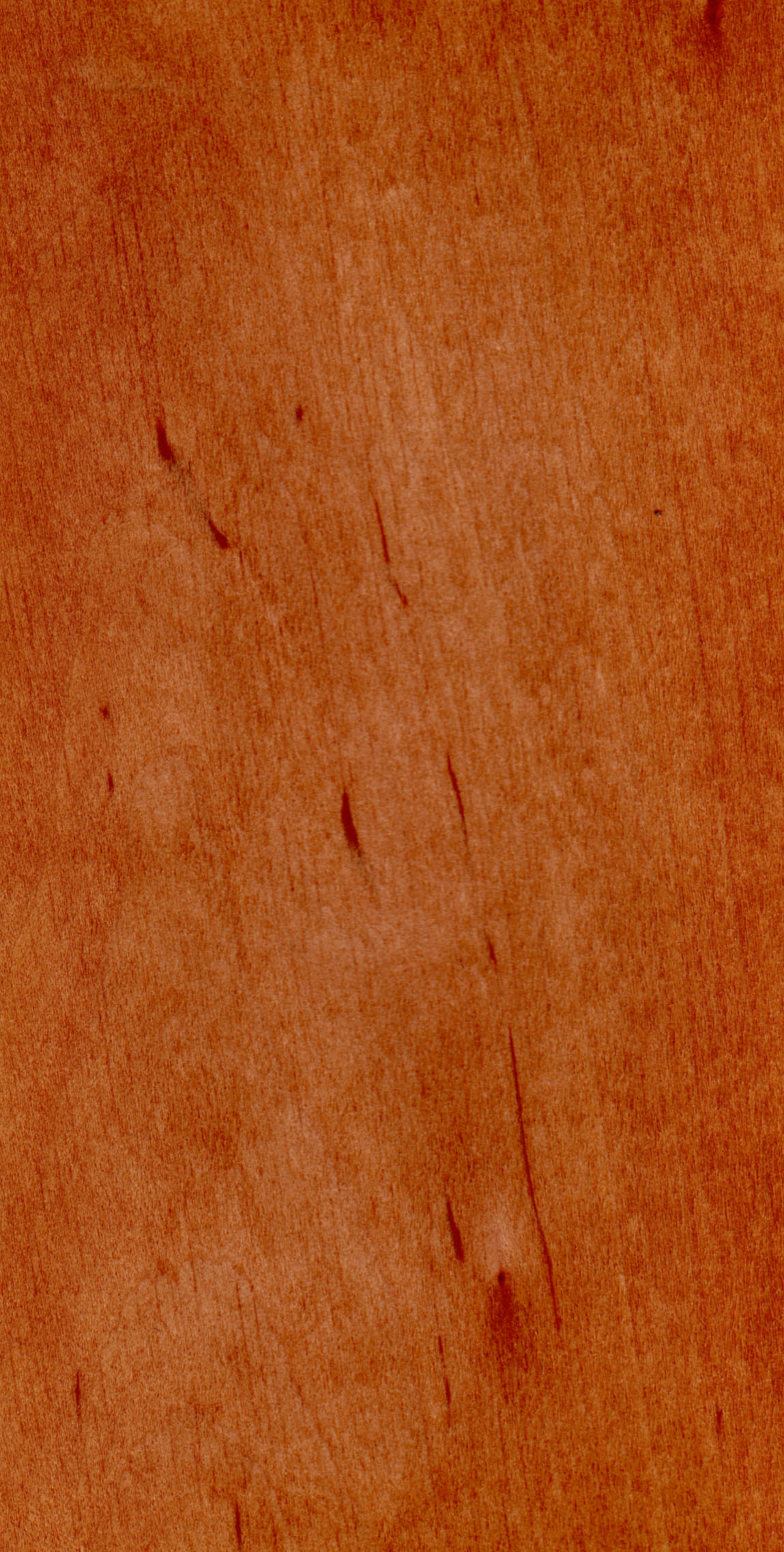 Wood of Alnus glutinosa